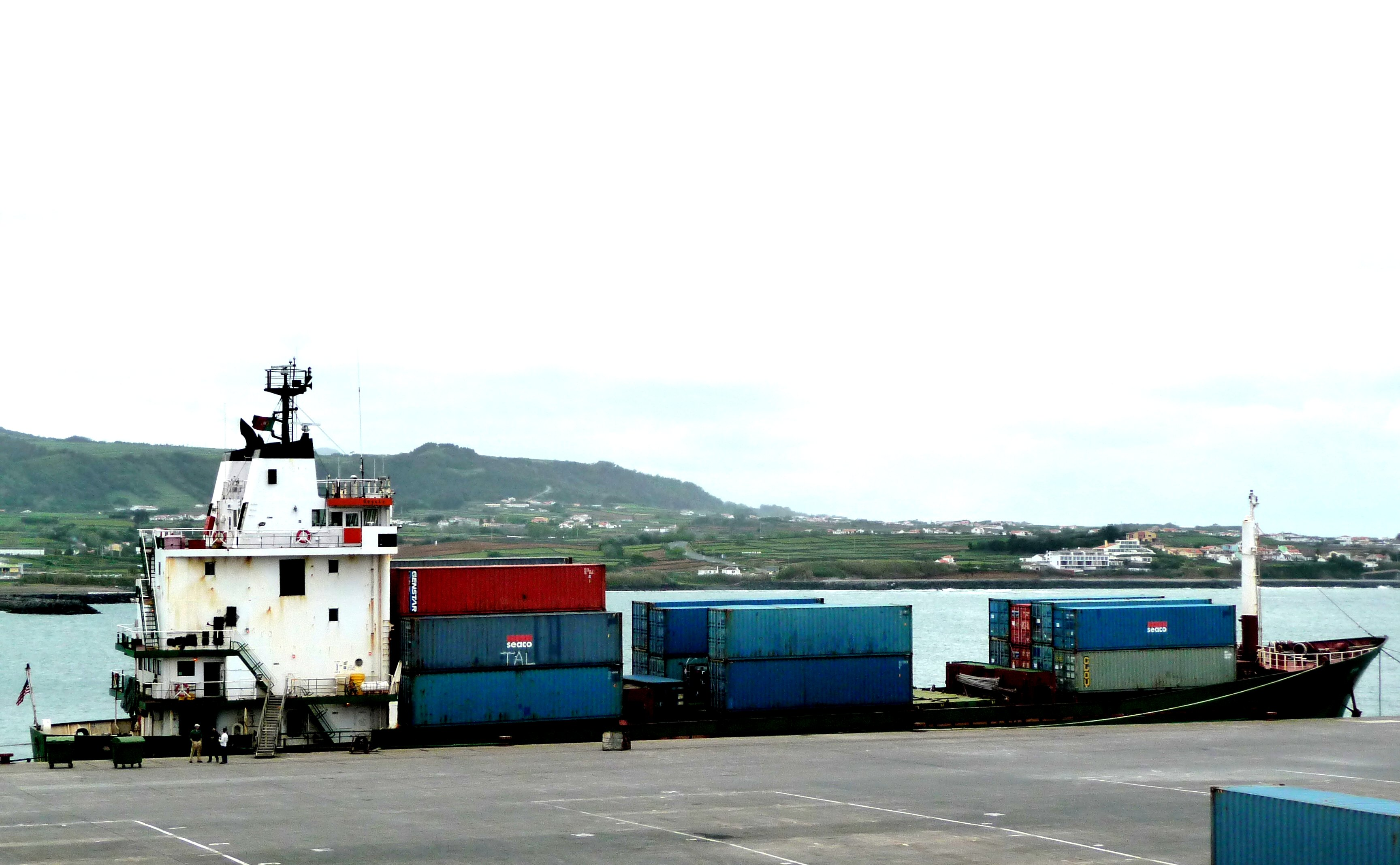 Cargo ship MV Geysir. IMO Number: 7710733 MMSI Number: 369819000 Callsign: WDD4592 Length: 273.8 ft Beam: 45ft